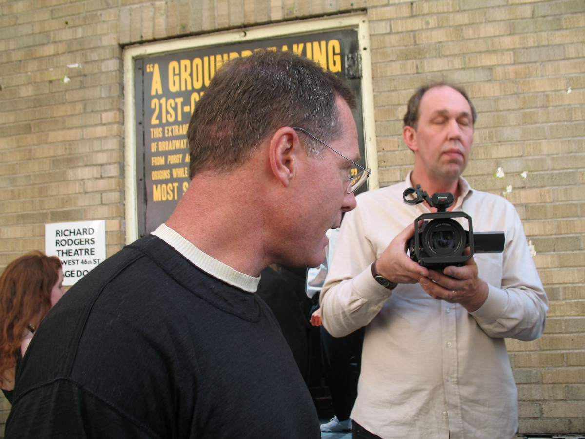 Actor Jason Beghe, who recently went very public with his criticisms of the Church of Scientology.